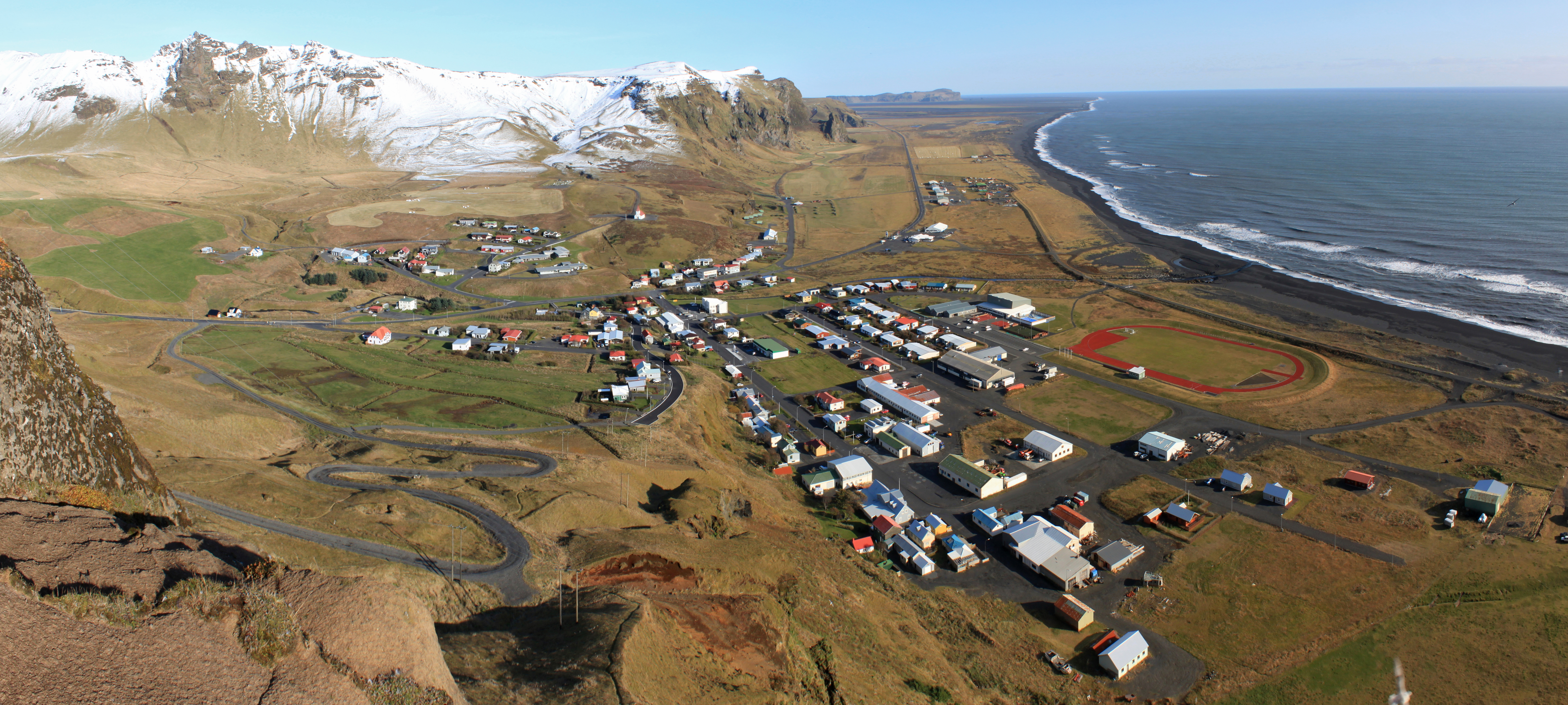 Panoramic photo taken from a mountain next to Vik, Iceland. Stitched together from 4 shots.